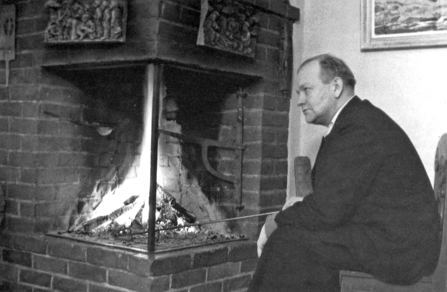 Photograph of the Finnish writer Heikki Asunta (1904–1959) in Ruovesi.